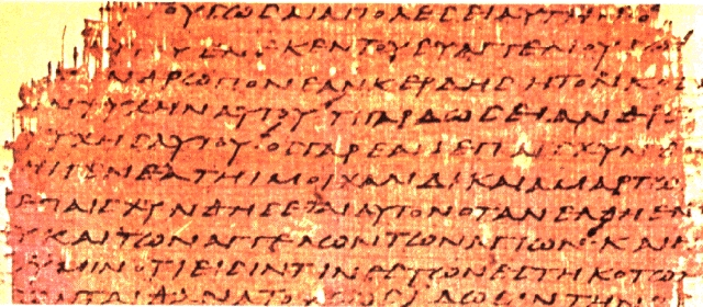 fragment of the codex with text of Marc 8:35-9:1